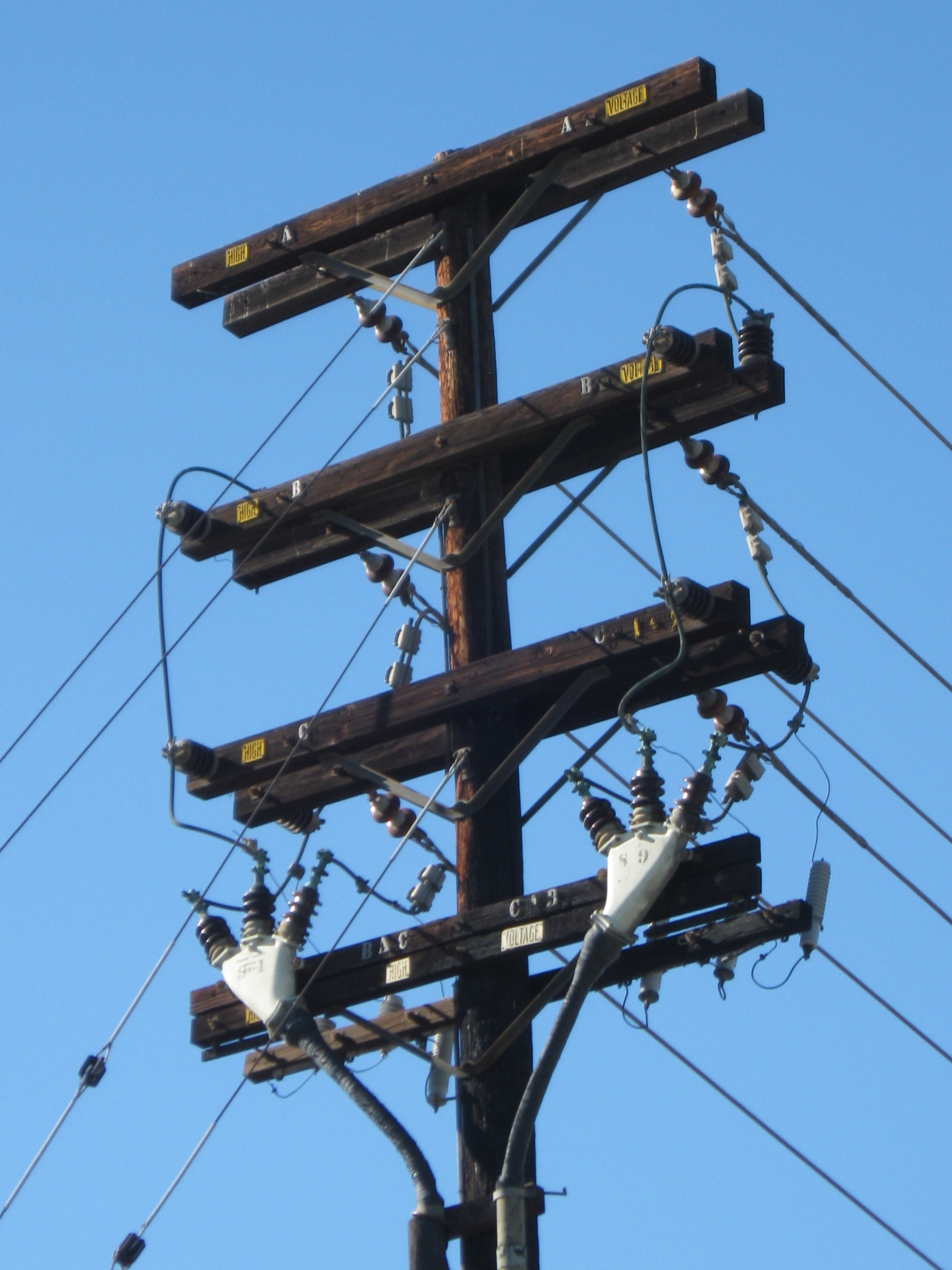 Crossarms with two three phase electric circuits terminated with a pothead; California